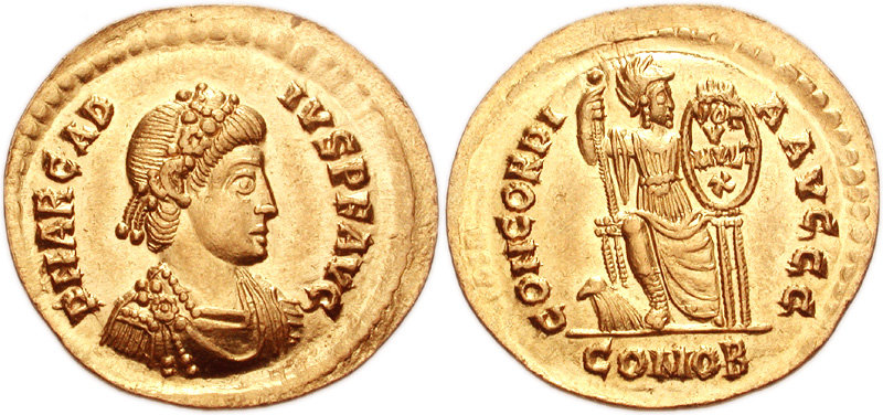 Arcadius. AD 383-408. AV Solidus (21mm, 4.42 g, 12h). Thessalonica mint. Struck AD 387-388. D N ARCAD-IVS P F AVG, rosette-diademed, draped, and cuirassed bust right CONCORDI-A AVGGG, Constantinopolis seated facing, head right, right foot on prow, scepter and shield inscribed VOT/V/MVLT/X; COMOB. RIC IX 51 var. (obv. legend break); Depeyrot -; DOCLR - (but cf. p. 109). Superb EF, lustrous. Extremely rare, fewer than five known.